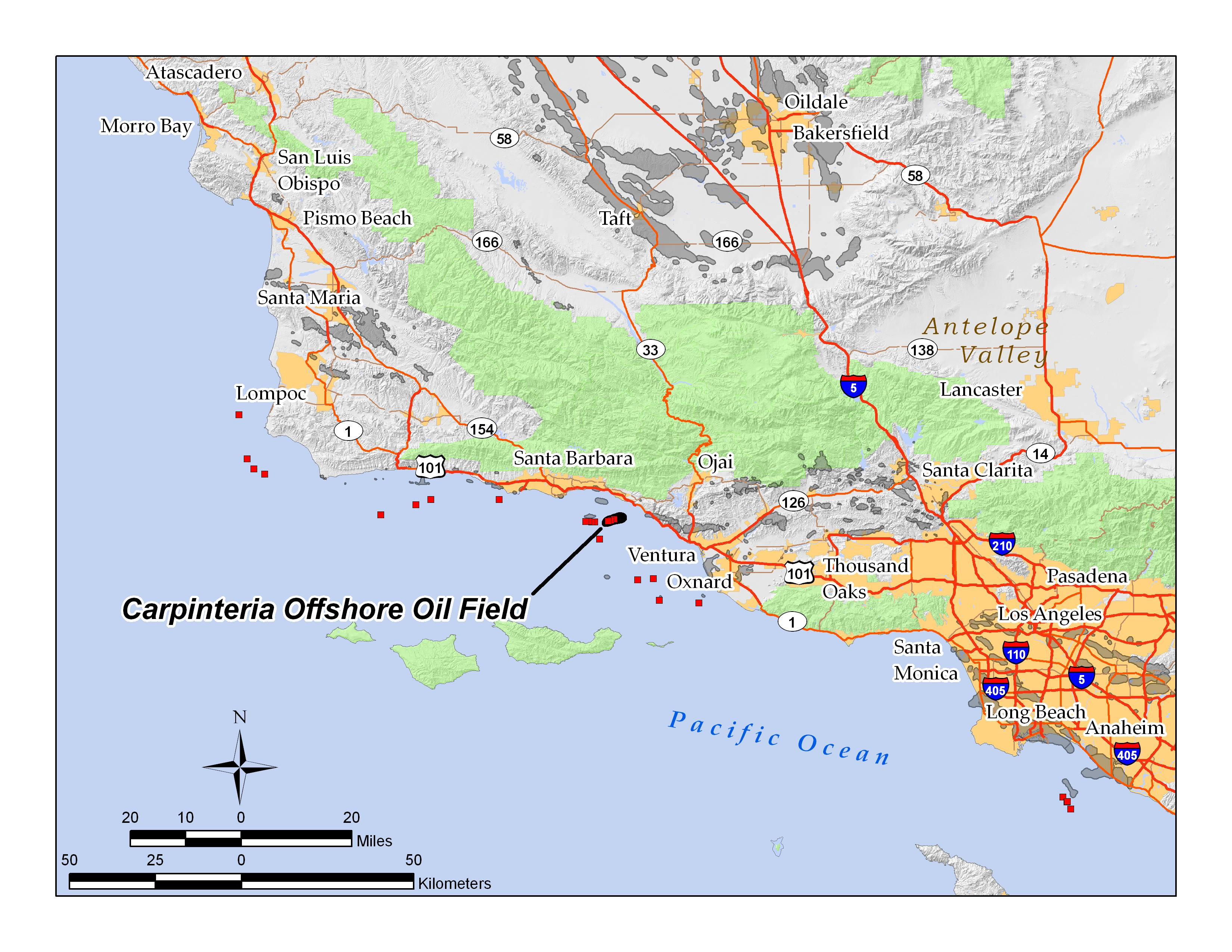 Location map of the Carpinteria Offshore Oil Field — and other offshore oil fields (red squares) off coastal Santa Barbara County, California. Also showing the coastal cities and highways in the county, and adjacent Southern California counties. By self in ArcGIS 9.3; all data displayed is in the public domain